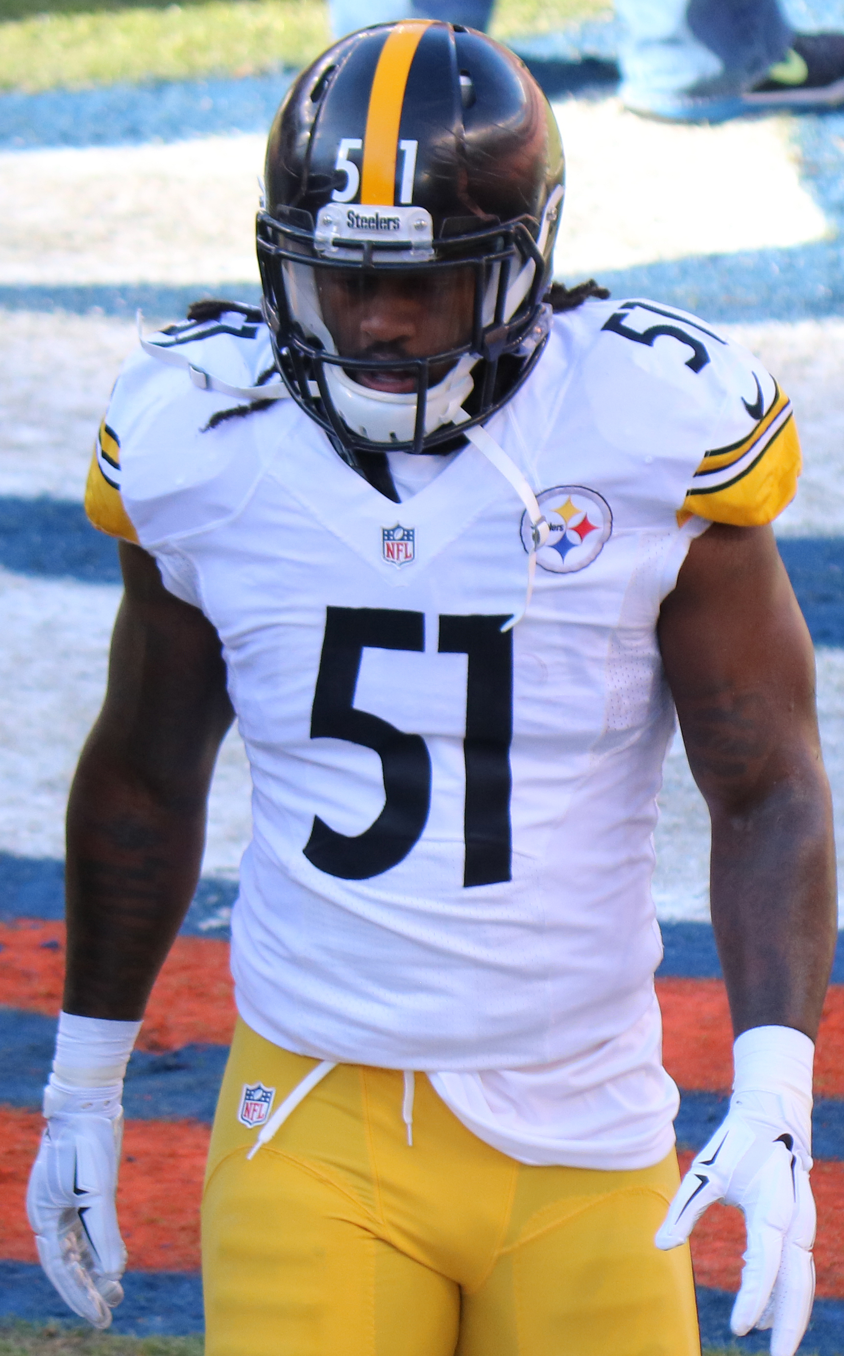 Sean Spence, a player on the National Football League.